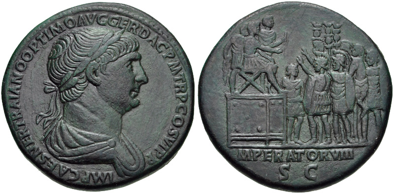 Trajan. AD 98-117. Æ Sestertius (31mm, 20.82 g, 5h). Rome mint. Struck circa AD 114. IMP CAES NER TRAIANO OPTIMO AUG GER DAC PM TRP COS VI PP, laureate and draped bust right Trajan seated right on platform, accompanied by two officers, and receives a salutatio imperatoria by his soldiers, in exergue IMPERATOR VIII SC. RIC II 655.